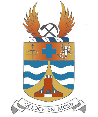 Coat of arms of Omaruru, Namibia